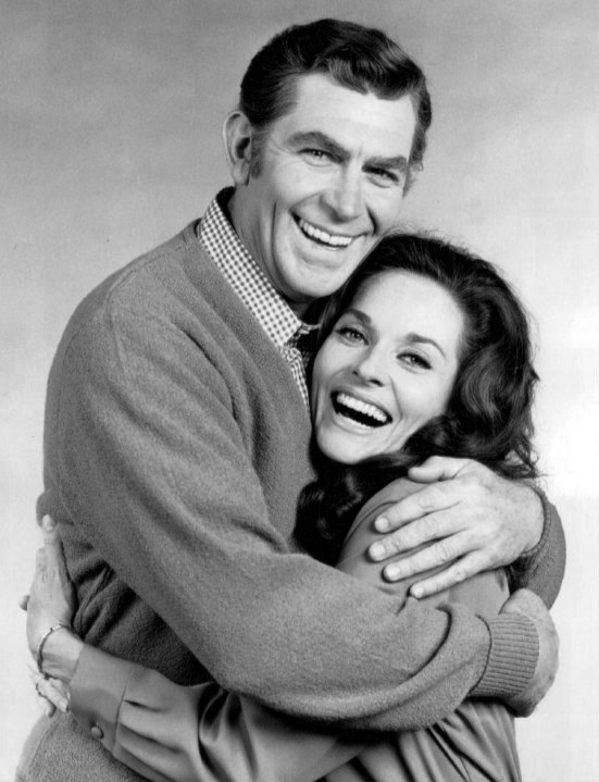 Publicity photo of Andy Griffith and Lee Meriwhether from the television program The New Andy Griffith Show.